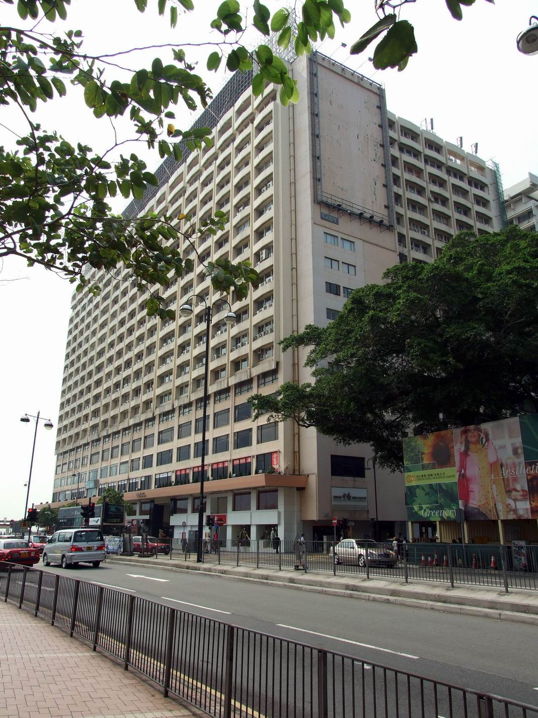 星光行, 梳士巴利道, Star House, Salisbury Road, Hong Kong